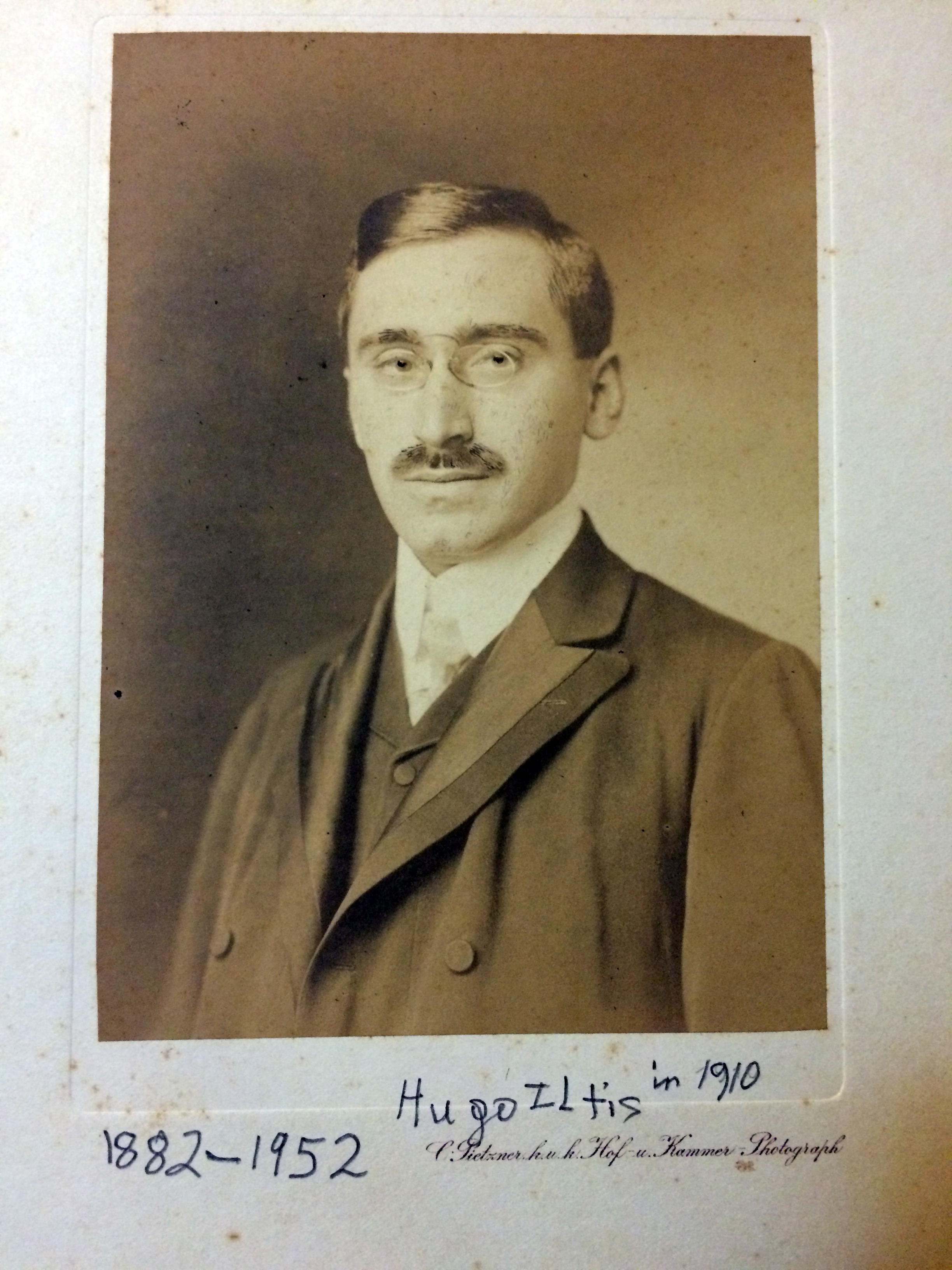 Photo of Hugo Iltis (1882-1952) in 1910